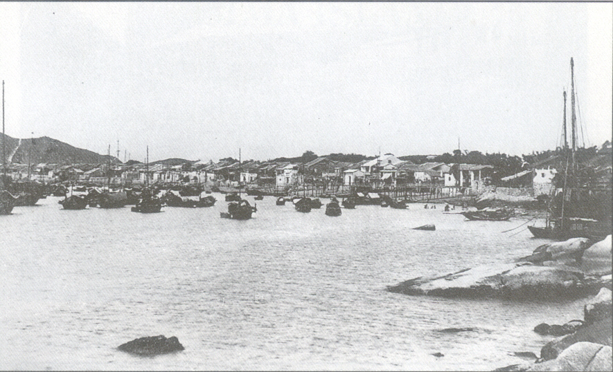 Cheung Chau, an outlying island of Hong Kong, in 1898